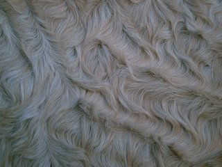 close-up shot of a Curly horse's winter coat